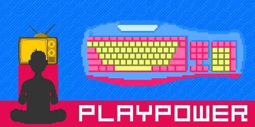 Logo